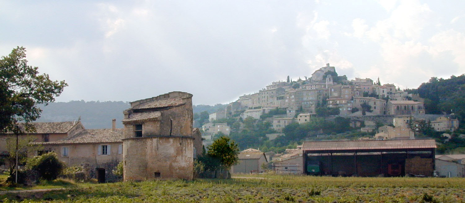 view on the village of Simiane-la-Rotonde, France